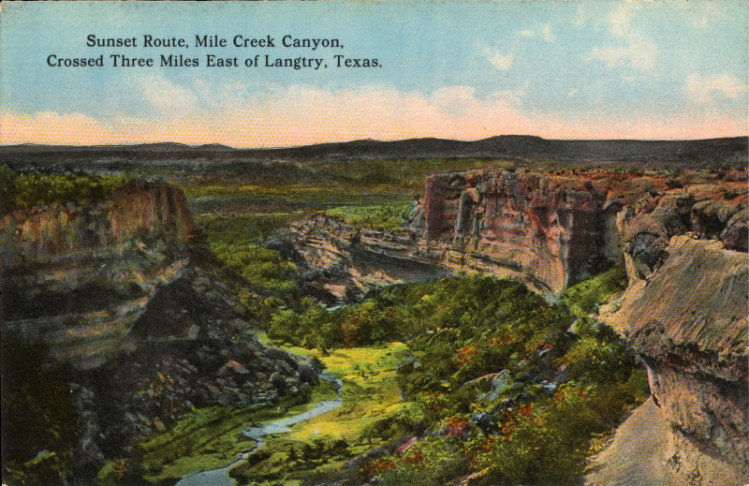 Sunset Route, Mile Creek Canyon, Texas. The University of Houston Digital Library